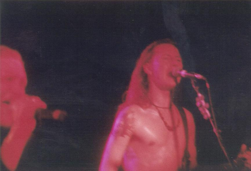 Jerry Cantrell playing with Alice in Chains at The Channel in Boston, MA.